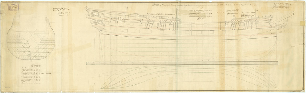 Ruby (1776); Nonsuch (1774); Vigilant (1774); Eagle (1774); America (1777) Scale: 1:48. Plan showing the body plan, sheer lines, and longitudinal half-breadth for Ruby (1776) and Nonsuch (1774), and later for Vigilant (1774), Eagle (1774), and America (1777), all 64-gun Third Rate, two-deckers. Signed by John Williams [Surveyor of the Navy, 1765-1784]. RUBY 1776